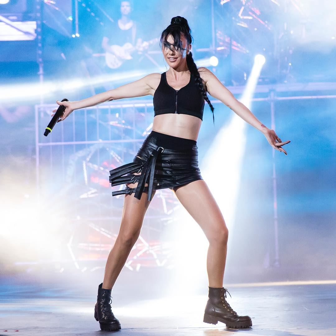 Hande Yener performing at Harbiye on August 9, 2016.